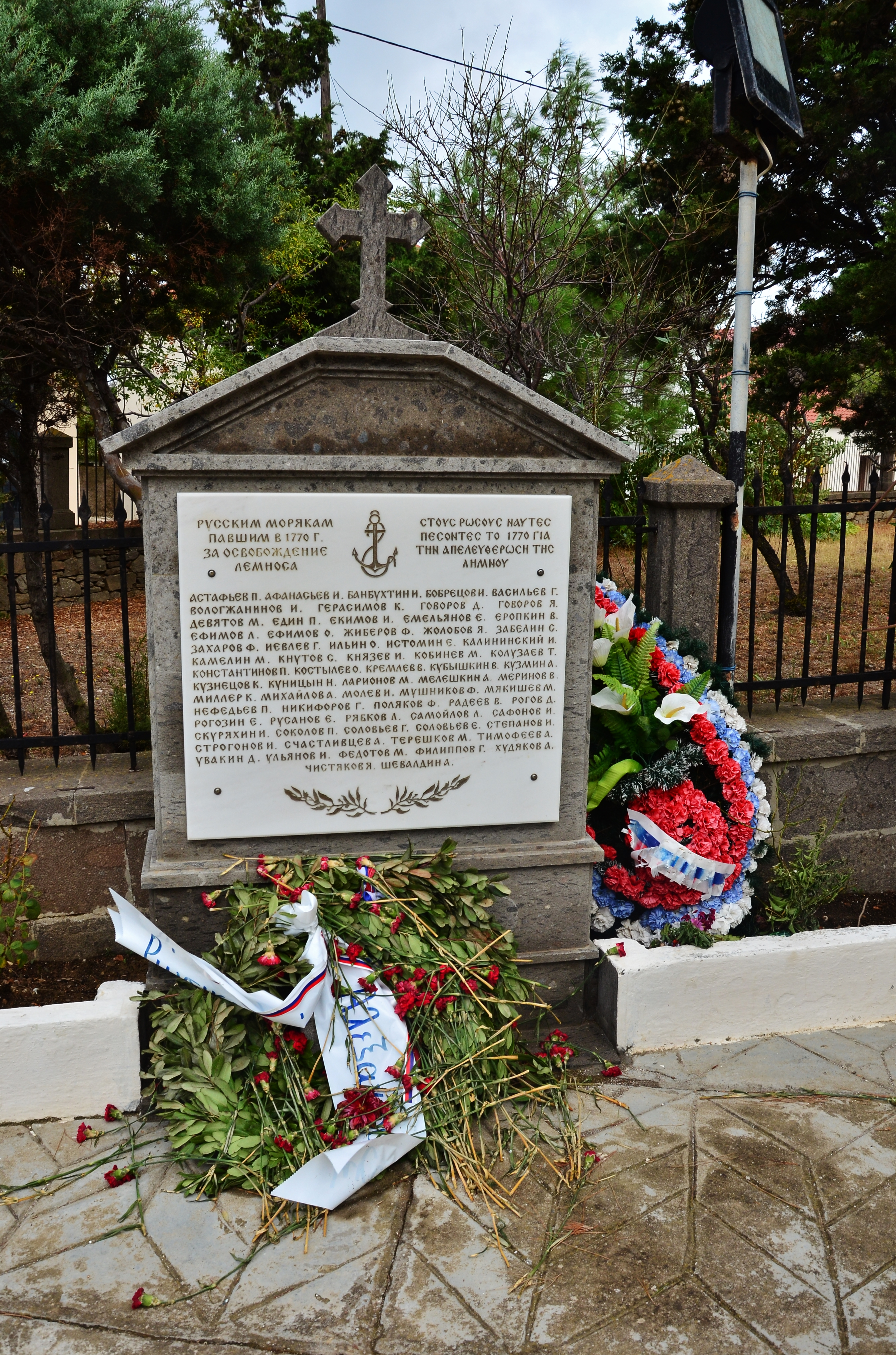 Monument for Russian sailors in Moudros, Lemnos, Greece